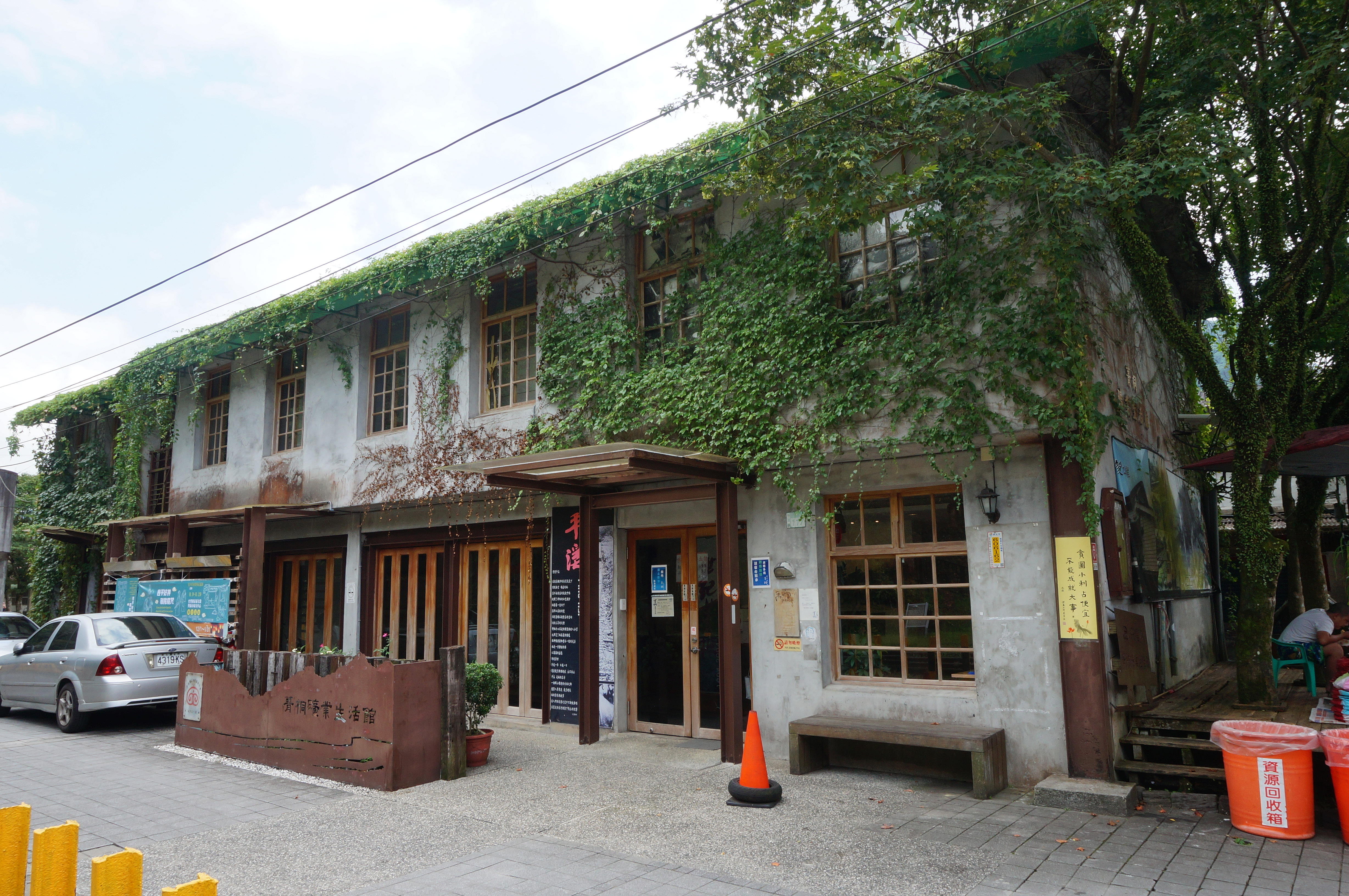 Jingtong Coal Mining Cultural House.